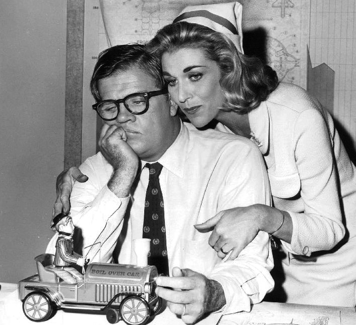 Photo of Pat Hingle as Horace Ford and Nan Martin as his wife, Laura Ford, from the television program The Twilight Zone. The episode is "The Incredible World of Horace Ford".